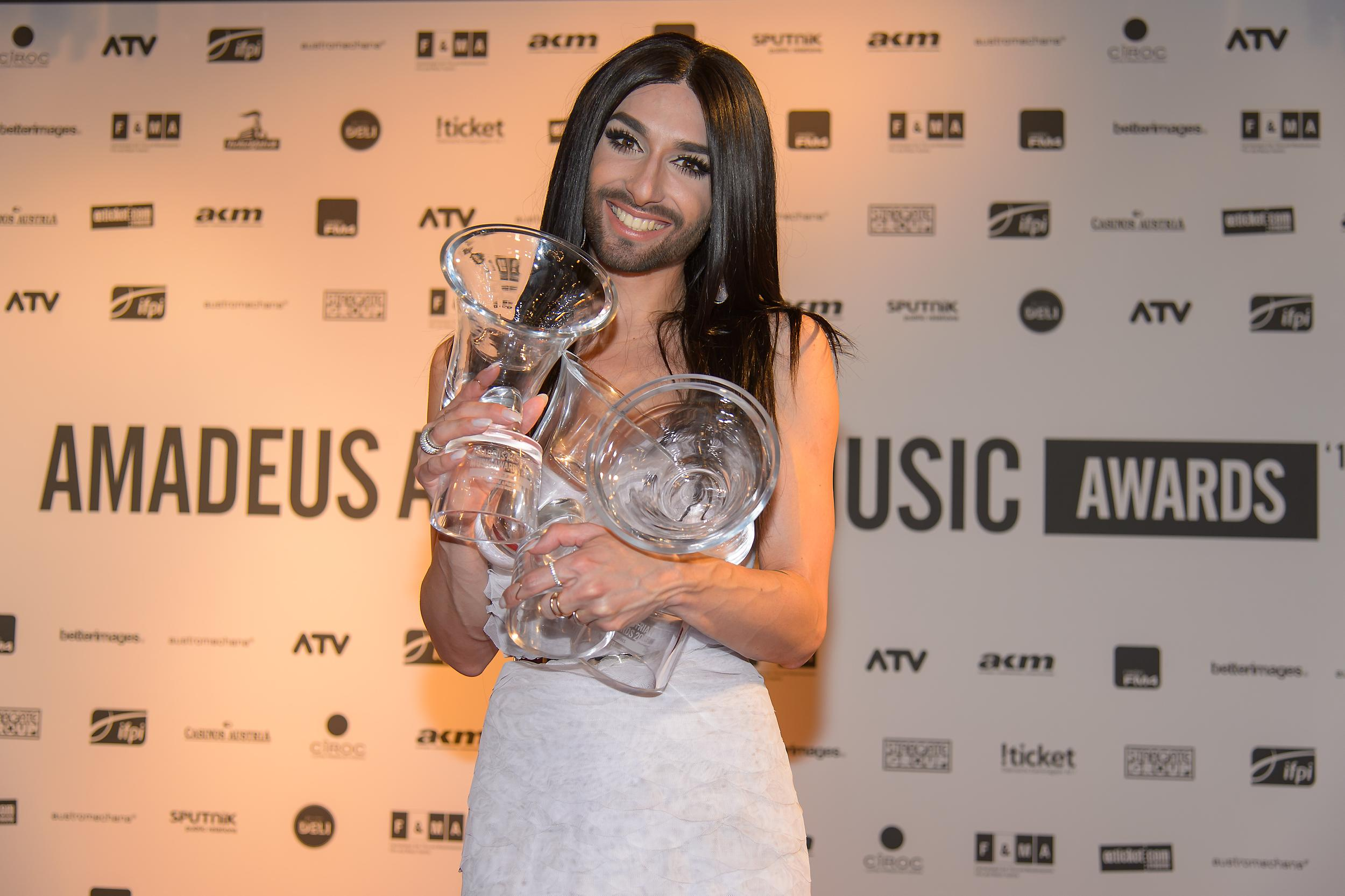 Amadeus Music Awards 2015,Volkstheater, Wien, 29.3.2015,Conchita WURST